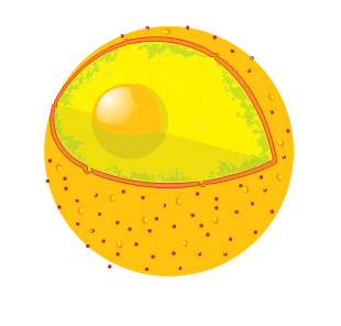 PNG version of Image:Diagram_human_cell_nucleus_no_text.svg